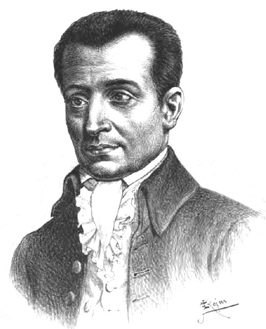 Juan Martínez de Rozas Correa (1759-1813) Politico y prócer de la independencia de Chile.